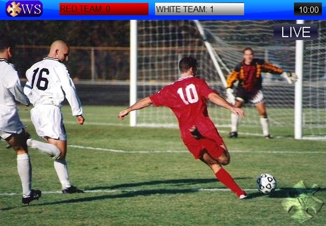 A demonstration of a typical score bar/bug showing the current score and time of a football match.